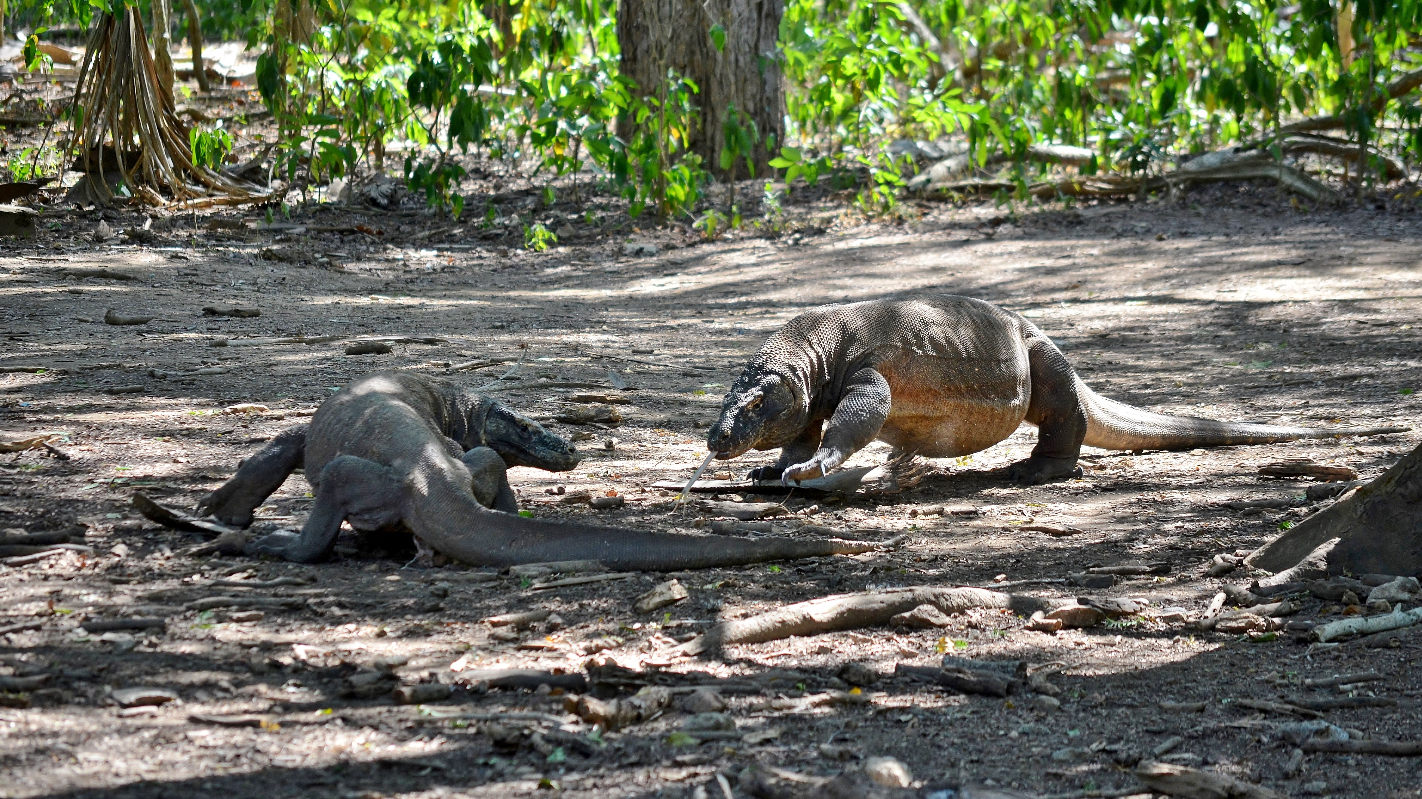 An interaction between a couple of Komodo Dragons in the wild on Komodo island, part of the Komodo National Park, in the Lesser Sunda Islands, Indonesia.